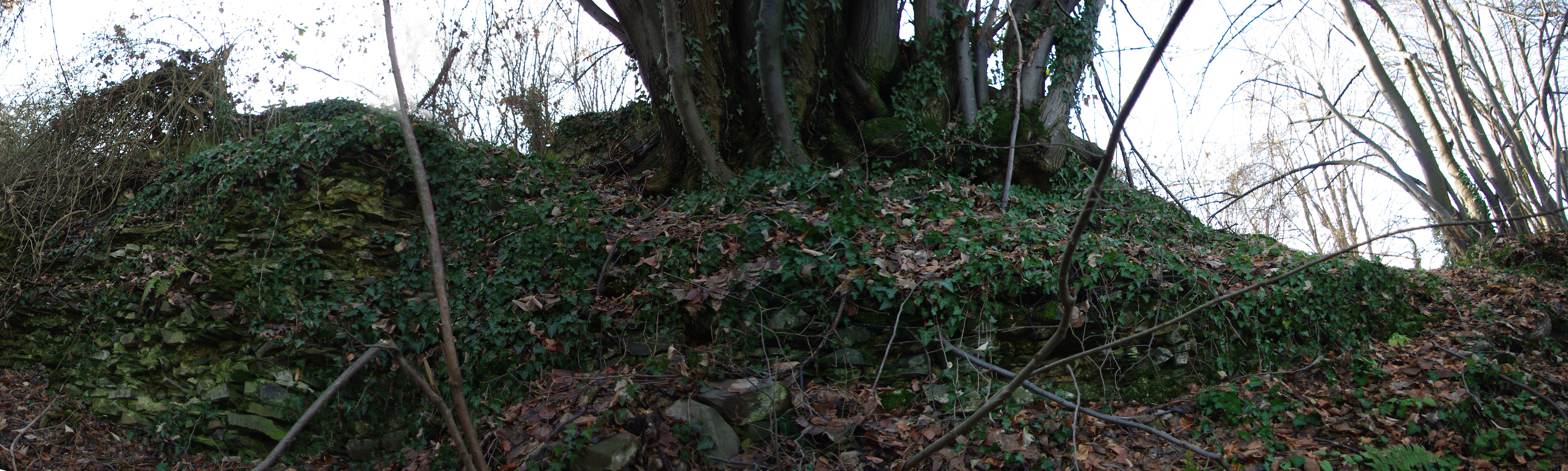 The wall of Vidin Grad, Lesnica, Serbia.